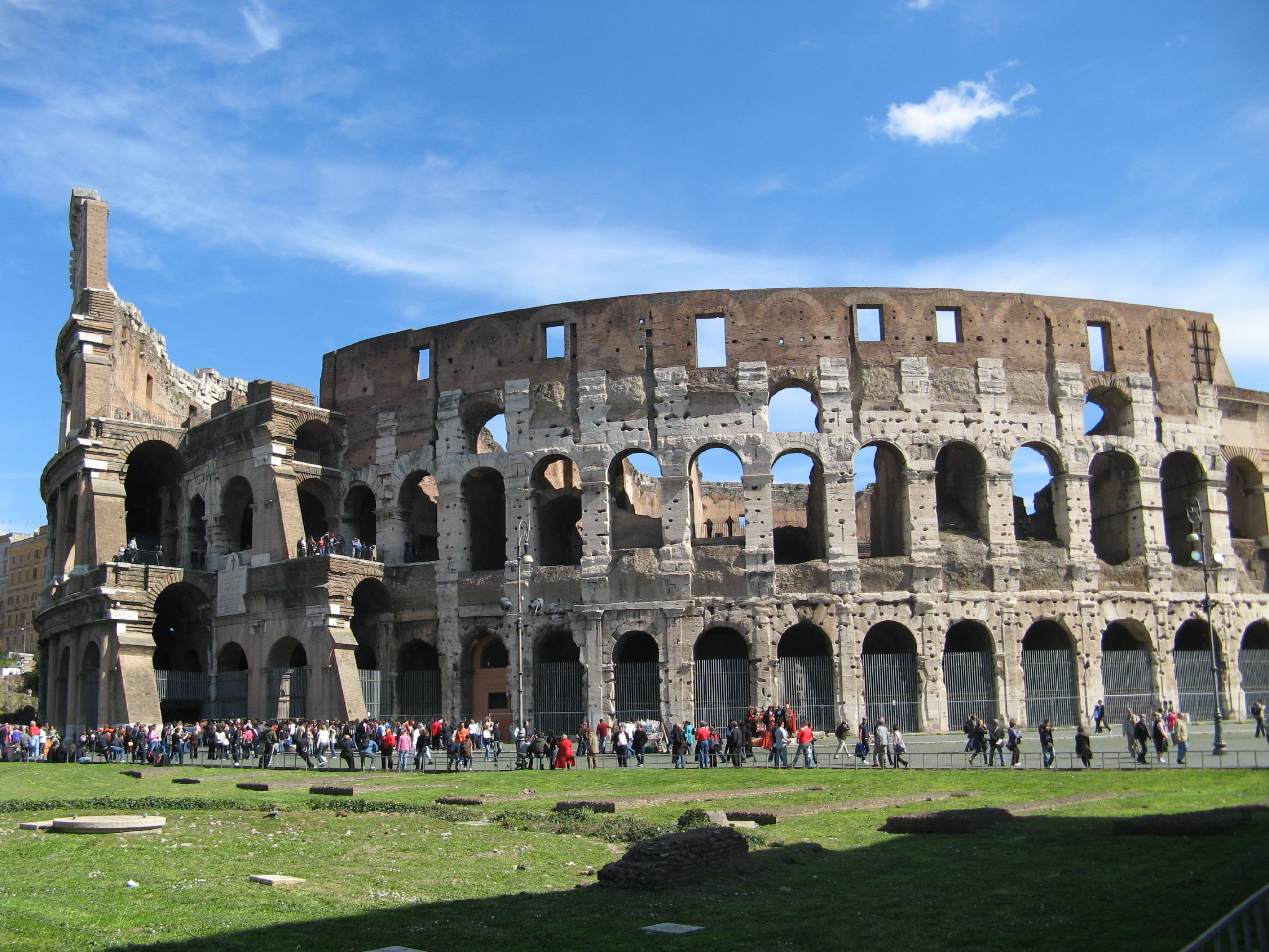 Colosseum, Rome, Italy. A fairly obvious one :)